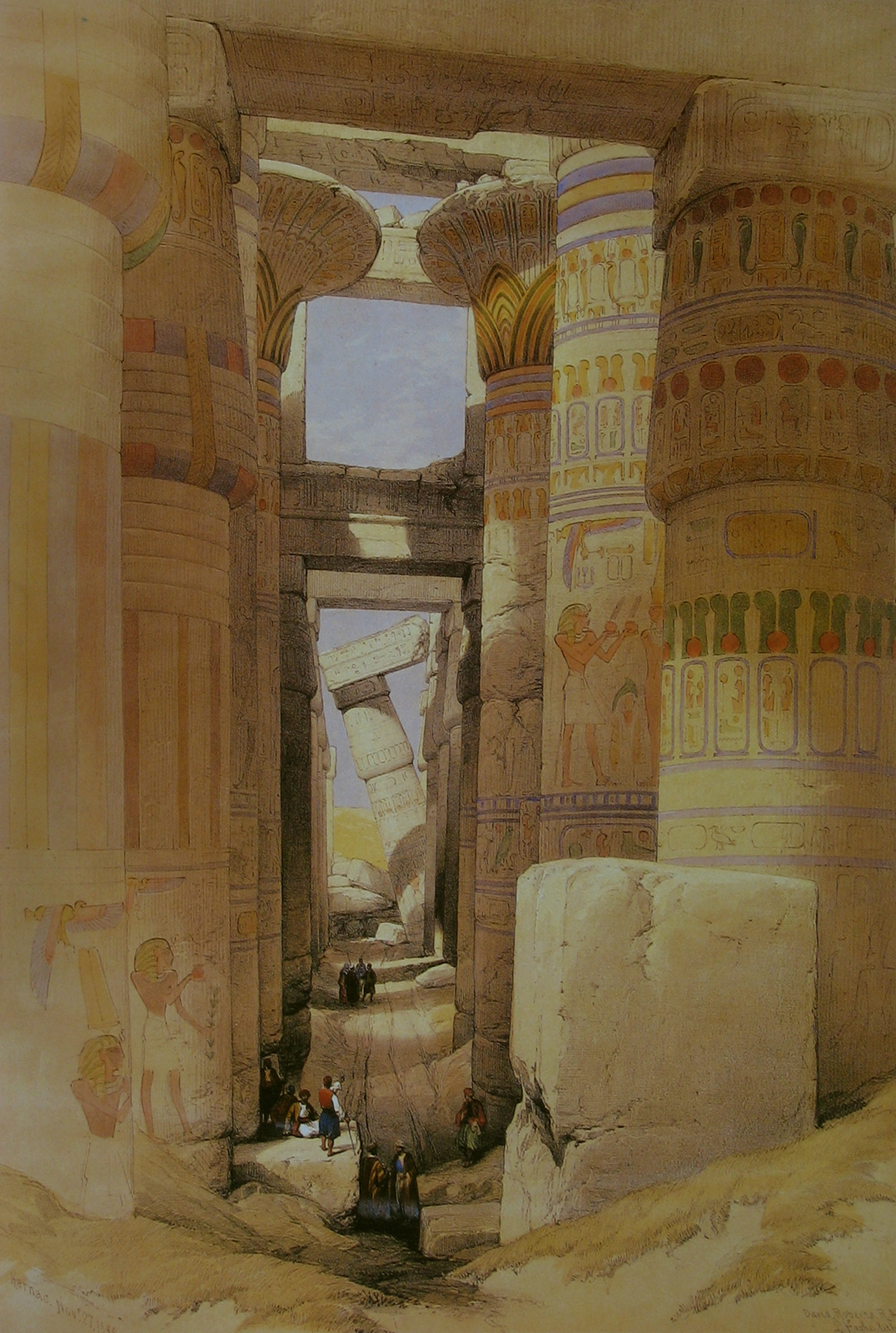 Column Hall of the Temple at Karnak/Egypt